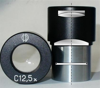 Microscope eyepiece.